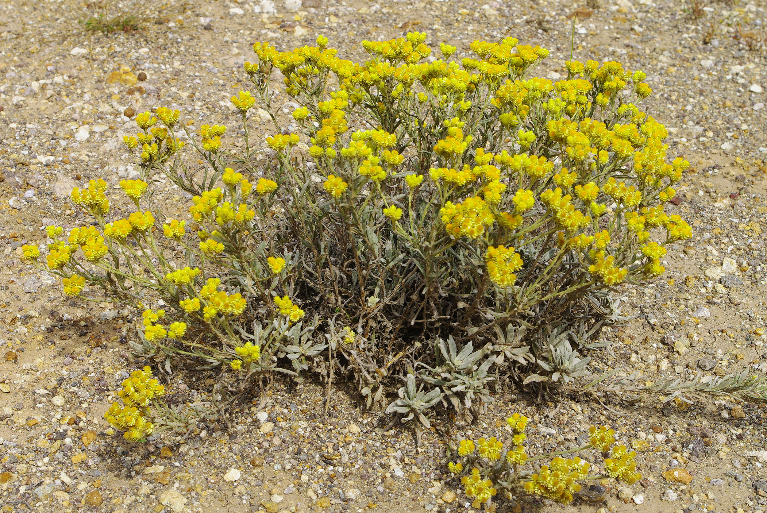 Flowers of Helichrysum plicatum ssp. Geminbeli Pass, Suşehri -Sivas, Turkey.